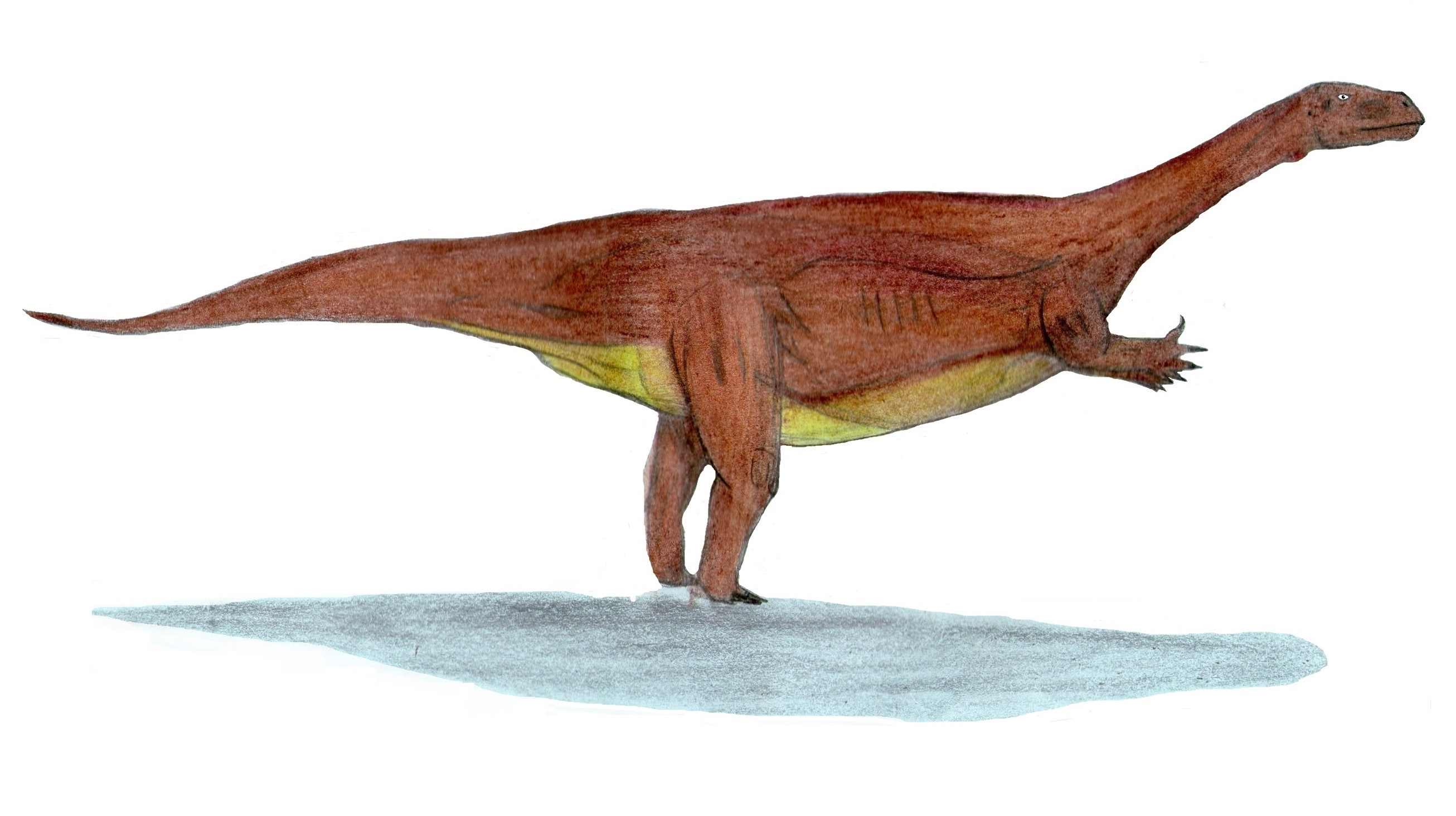 Restauration the Mussaurus